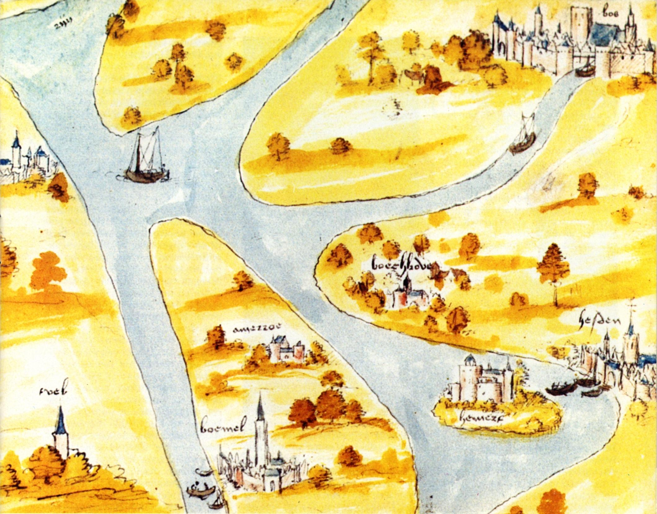 Map of Gelderland, detail. Vienna, State Archives.